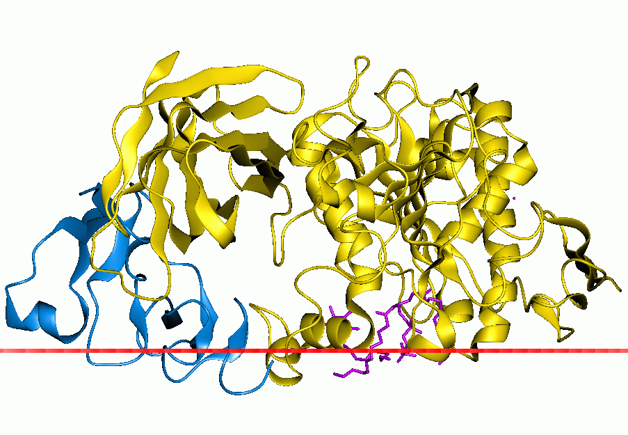 Protein image from OPM database